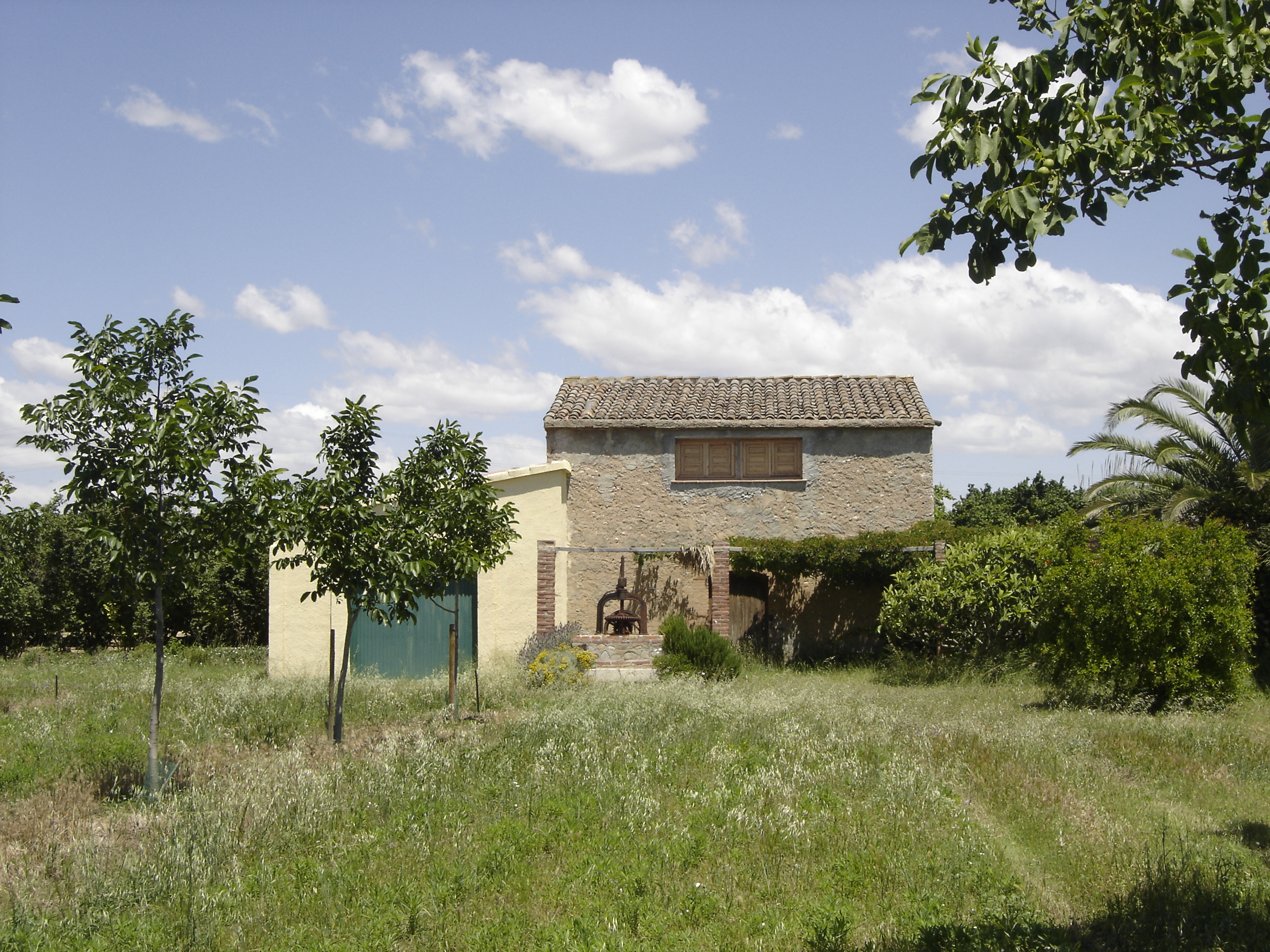 Mas de Perrillo at El Rourell.